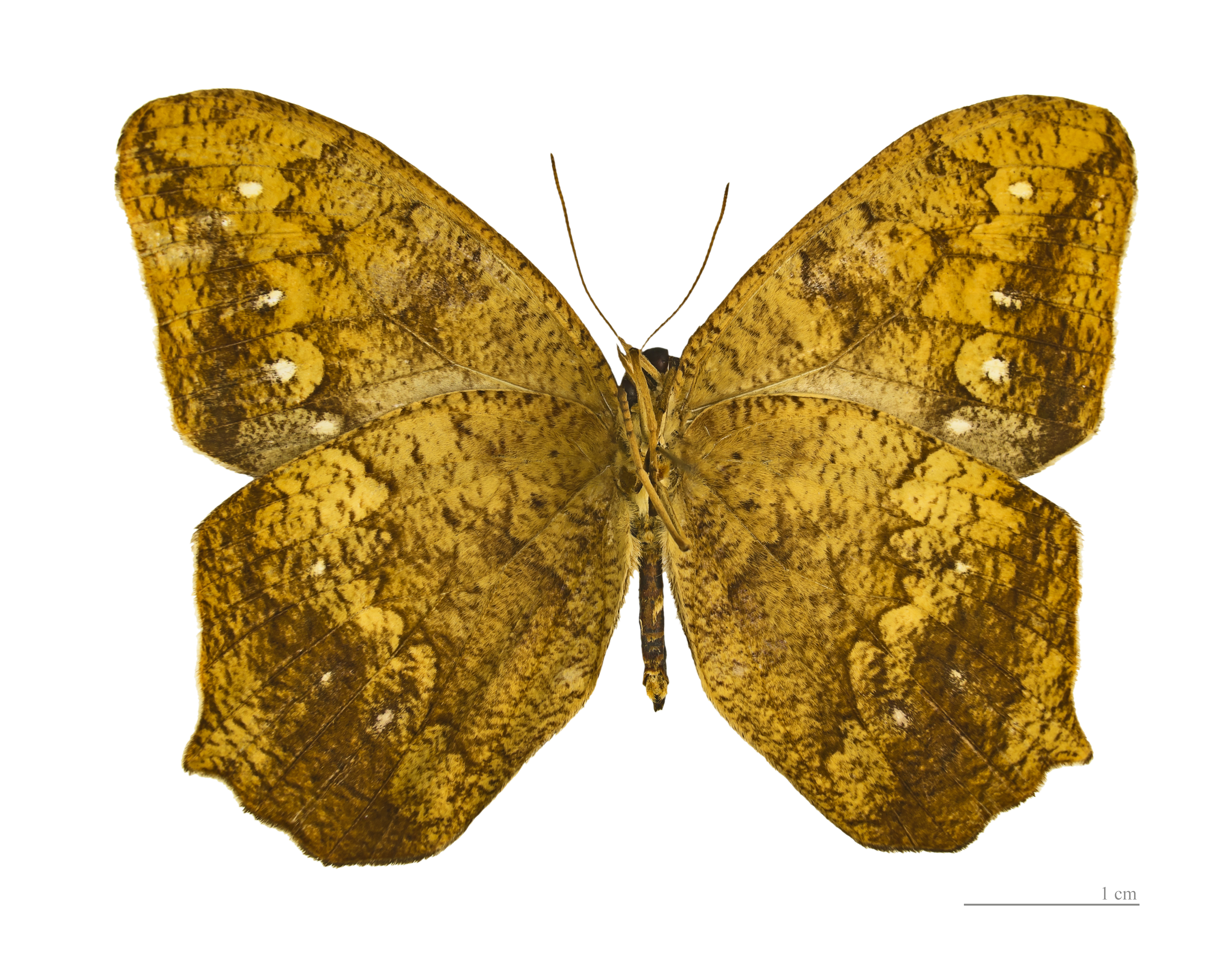 Antirrhea ornata - △ Ventral side